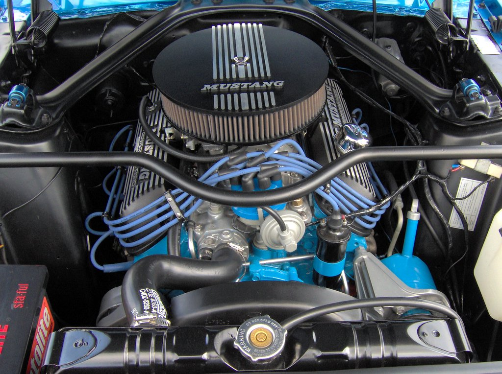 1967 Ford Mustang fastback 302 Hi-Po